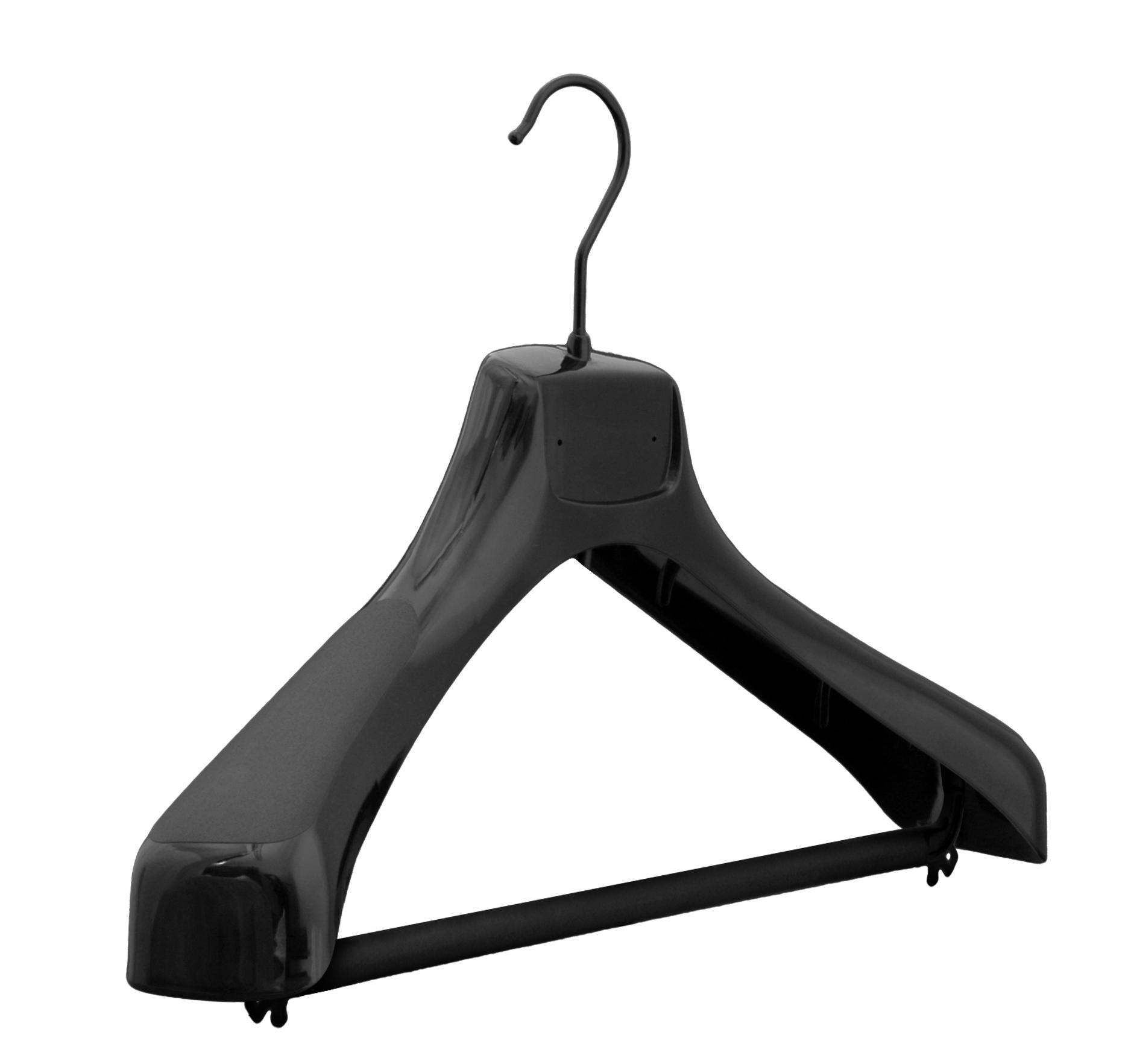 Special coat hanger by Serviz group